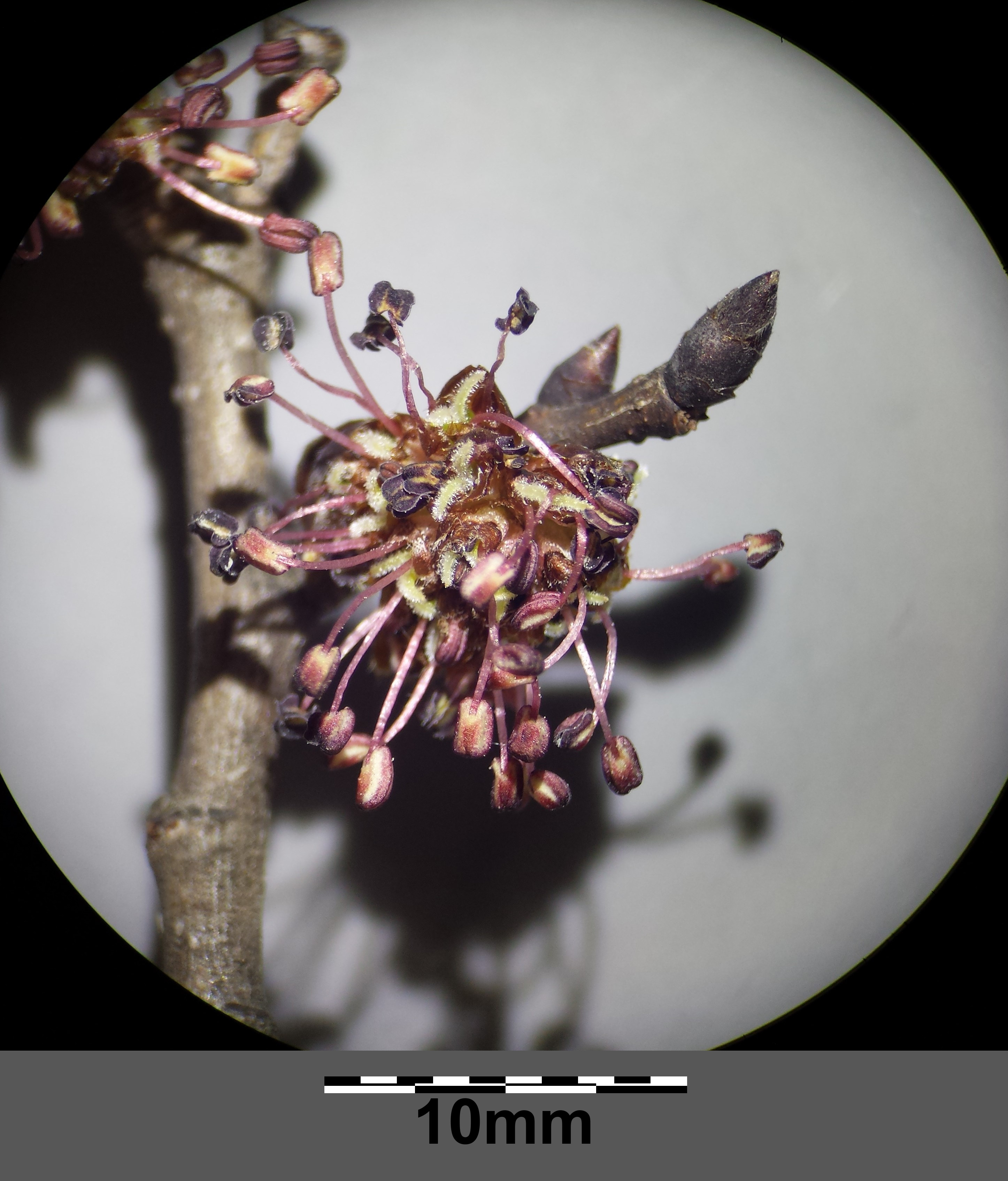 Branch with inflorescence Taxonym: Ulmus minor (subsp. minor) ss Fischer et al. EfÖLS 2008 ISBN 978-3-85474-187-9 Location: Steinberg near Niederhollabrunn, district Korneuburg, Lower Austria - ca. 370 m a.s.l. Habitat: shrubbery